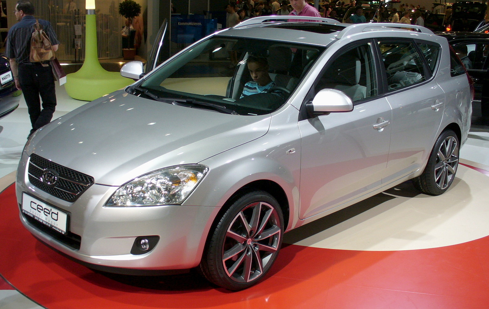 Kia cee'd sw